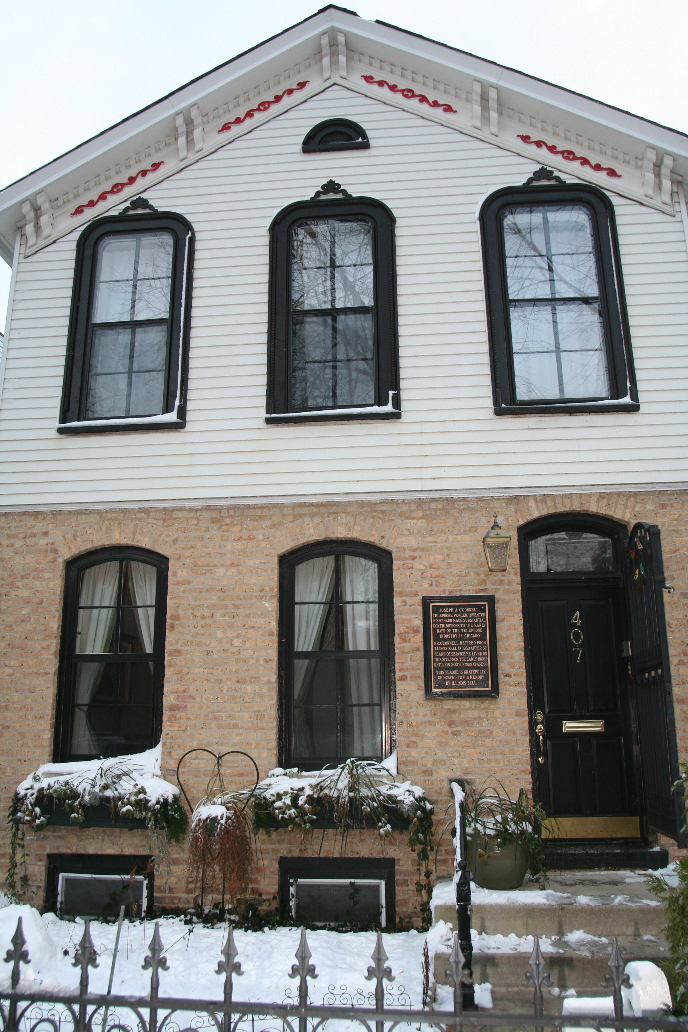 Joseph J. O'Connell Telephone Pioneer House